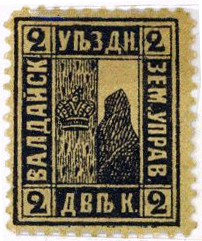 Valdai Uyezd Zemstvo Stamp, 2 kopecks, Russia.